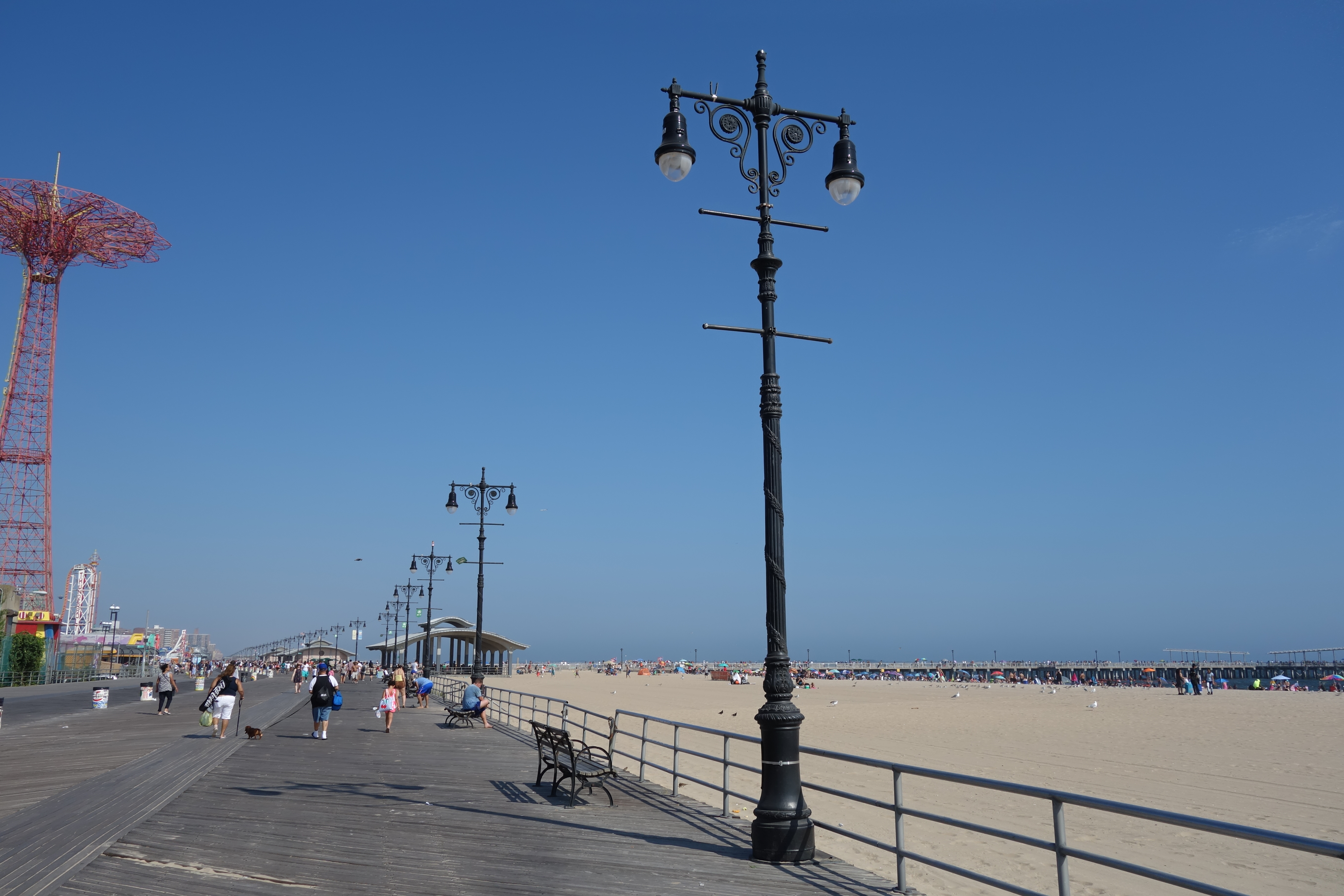 Walking east down the Riegelmann Boardwalk between West 17th Street and West 21st Street in Coney Island, Brooklyn.